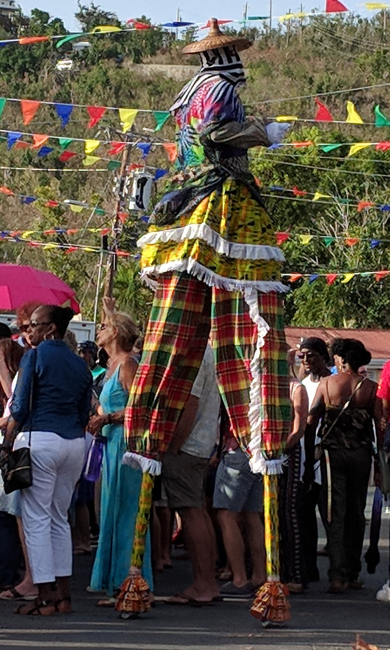 Mocko Jumbie, St John Festival, Cruz Bay, St John, USVI, Jun 2018.